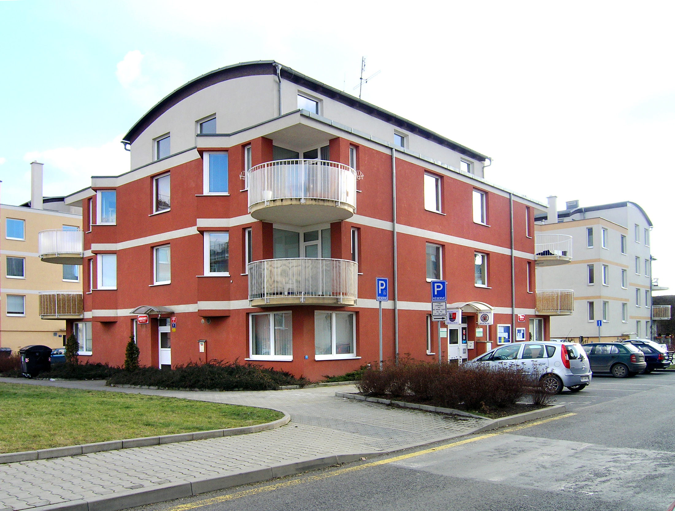 Town hall of Praha-Újezd in Kateřinky district, Prague